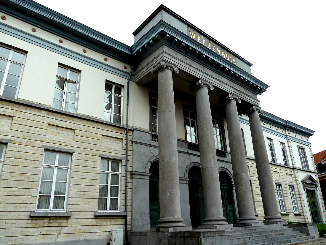 Orphanage Tienen